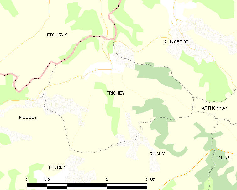 Map of French municipality Trichey